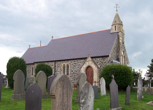 St David's parish church, Henfynyw, Ceredigion (formerly Cardiganshire)